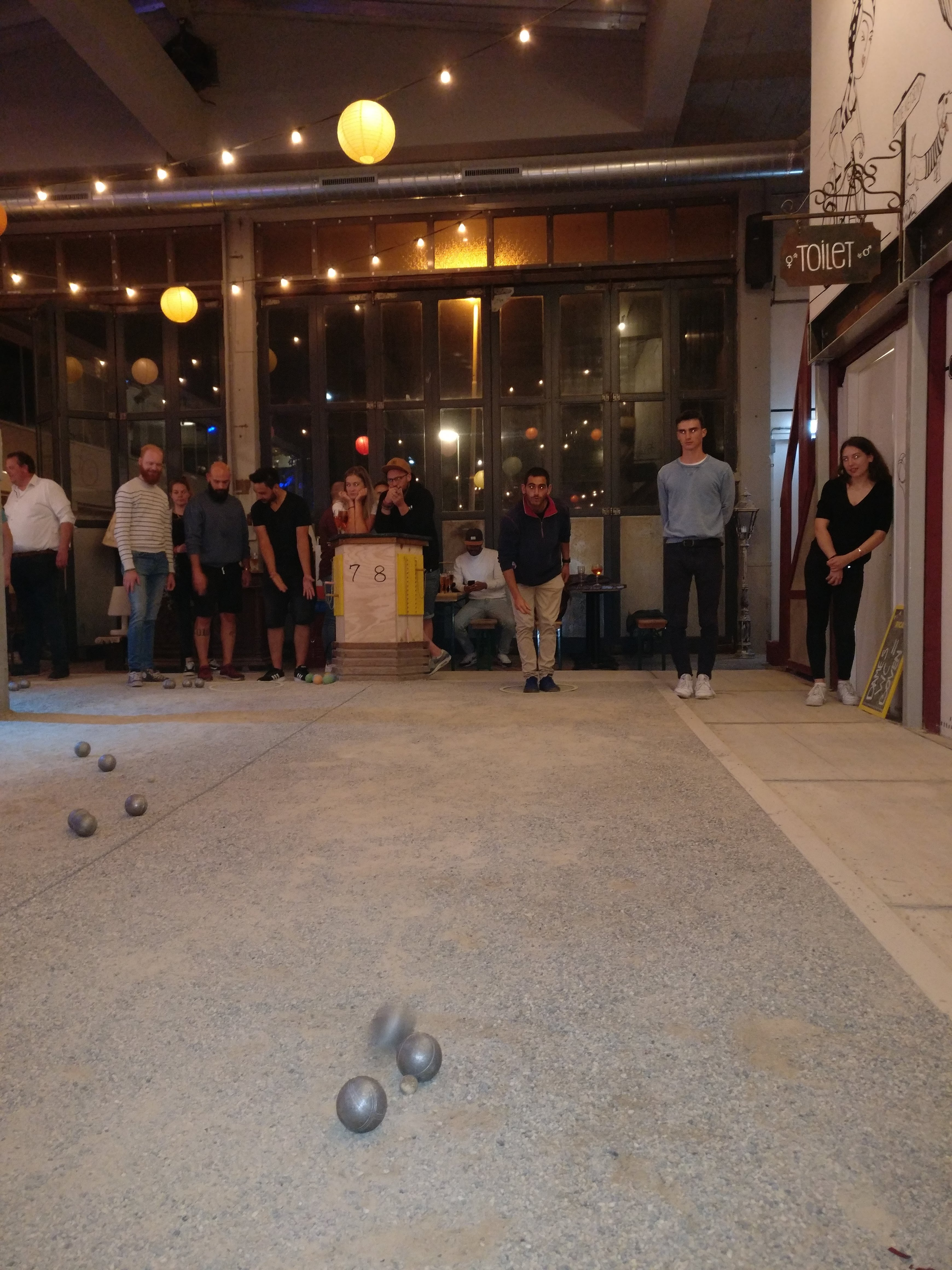 Pétanque being played indoor in Rotterdam.